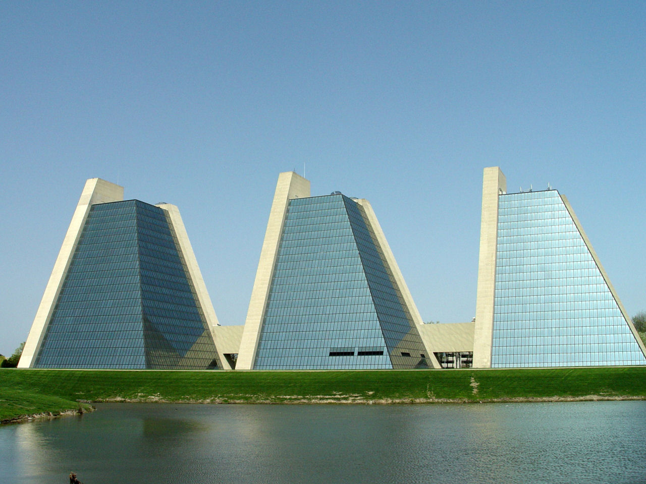 Yep... Egypt has them and so do we... and they are our Pyramids PS'd a bit to add more contrast